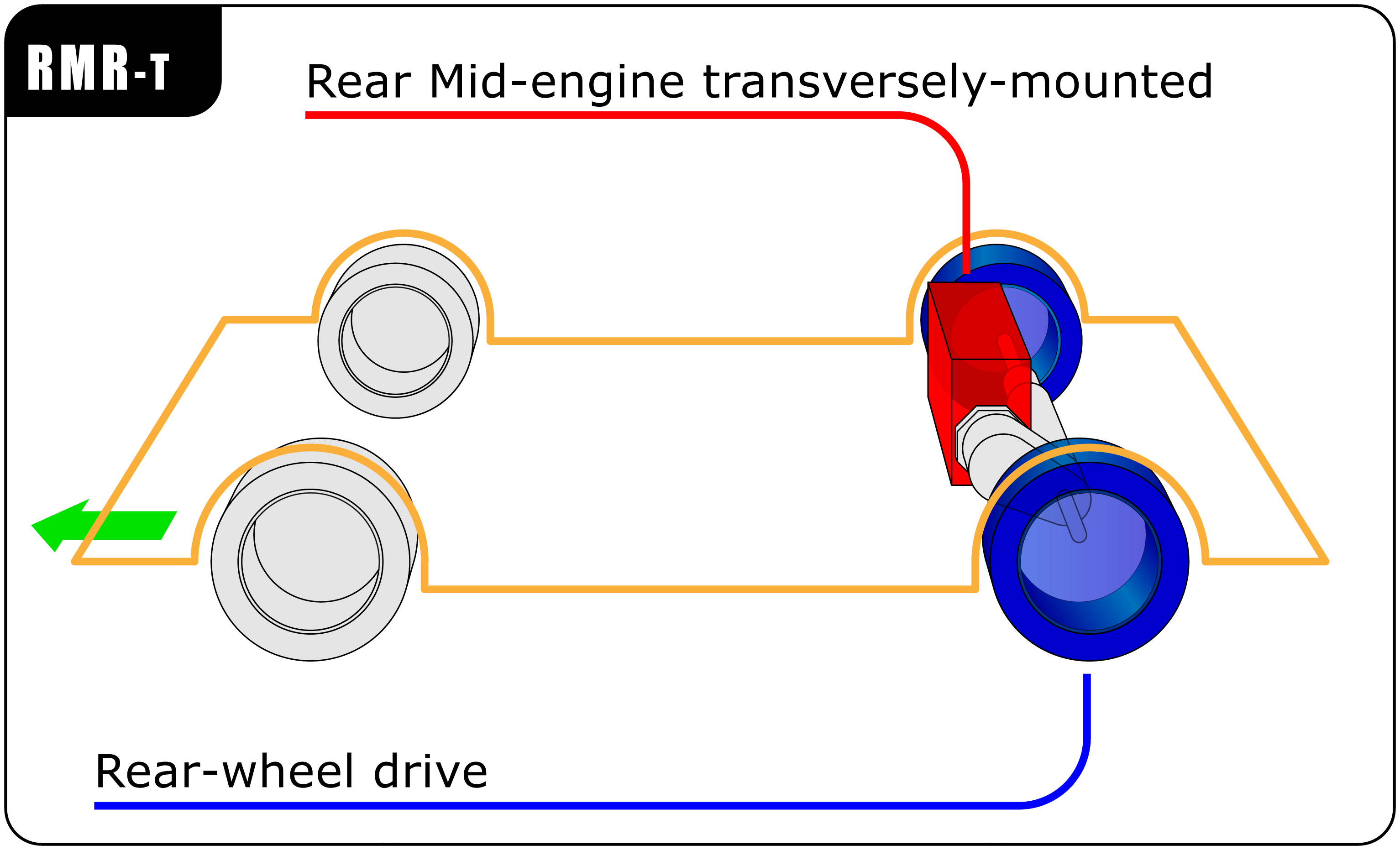 Vehicle engine and drive wheel placement diagrams (German versions coming soon)